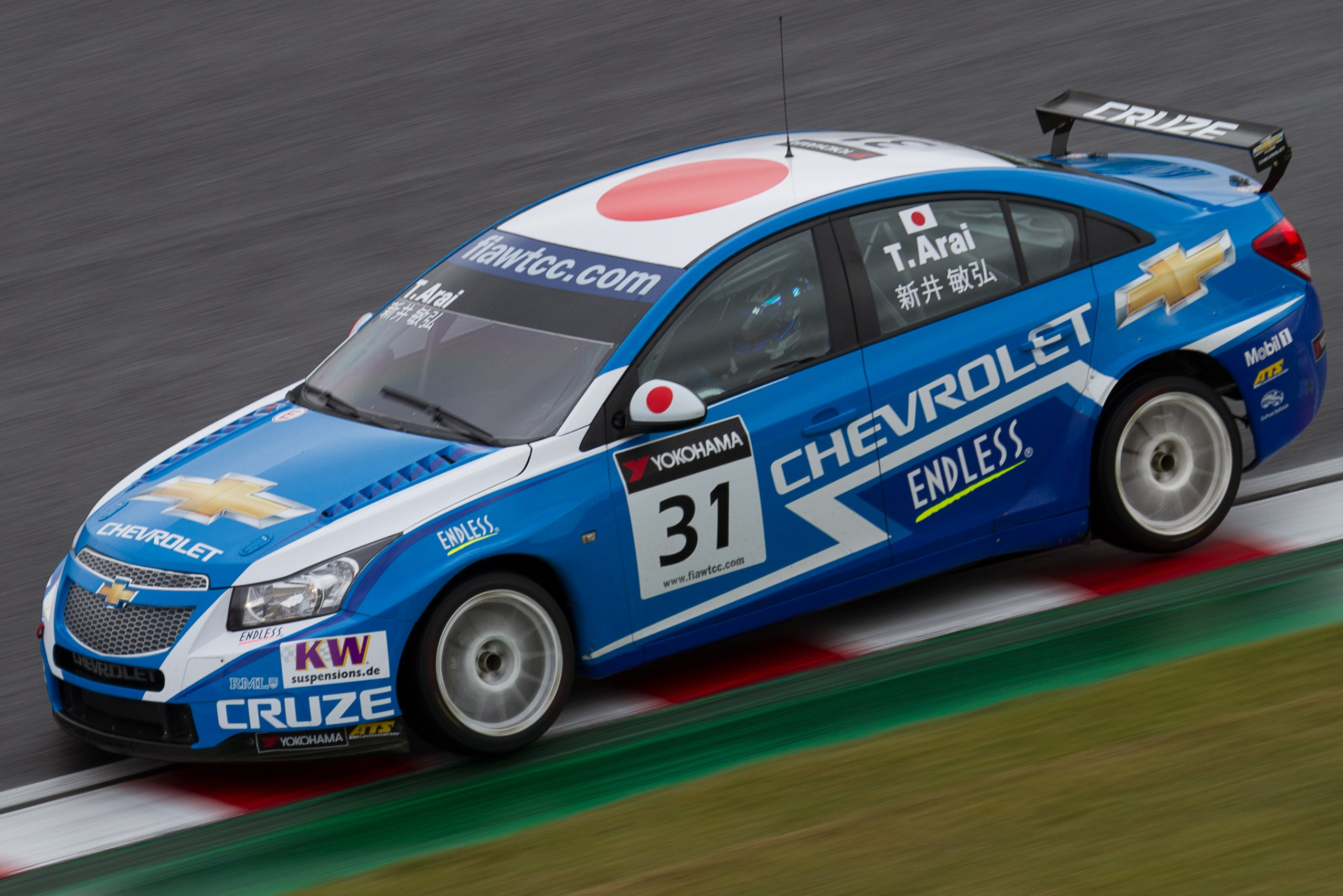 World Touring Car Championship 2011 Race of Japan: Toshihiro Arai (Chevrolet) during the 1st practice session on Saturday.